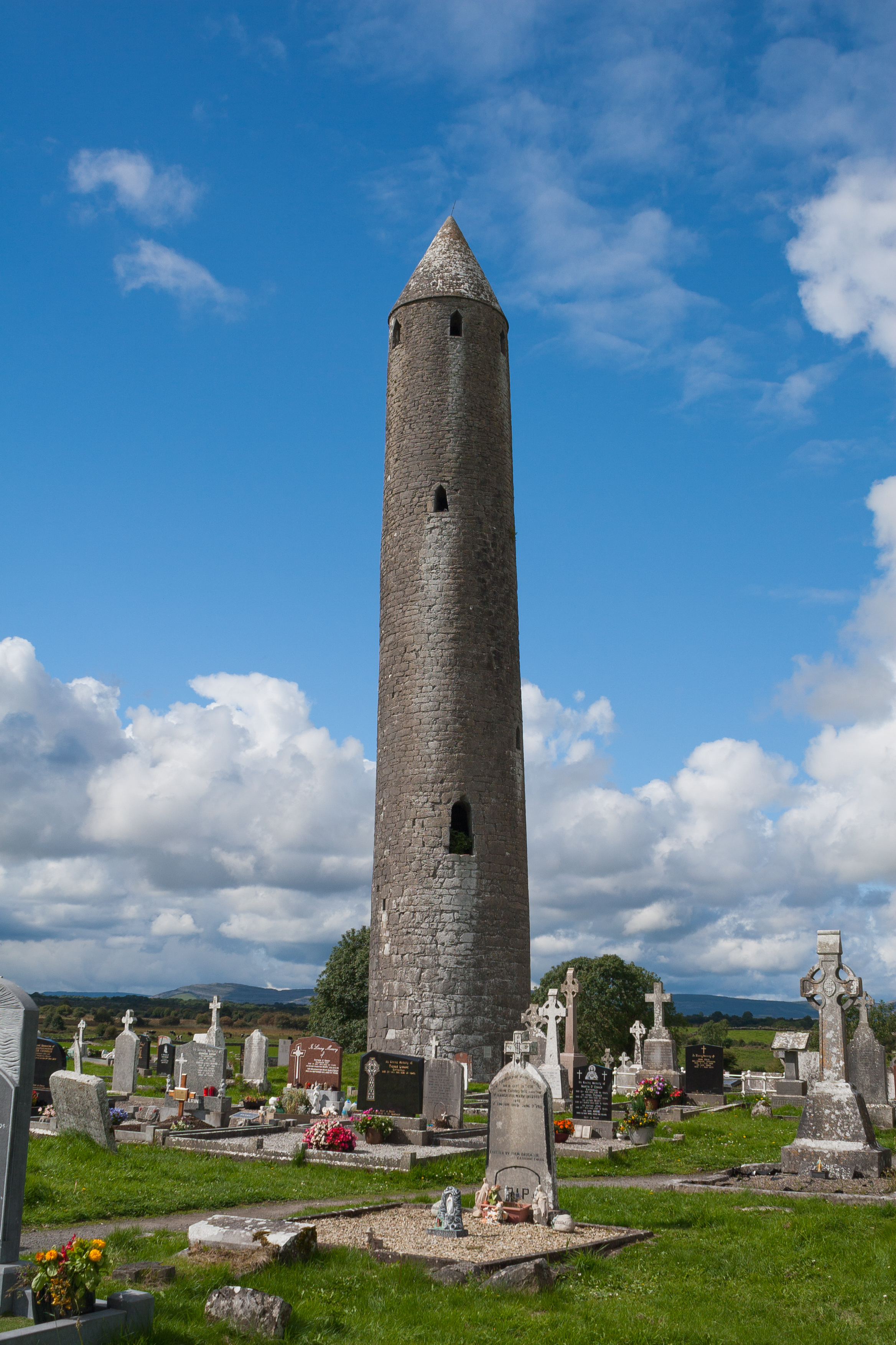 East view of the round tower.